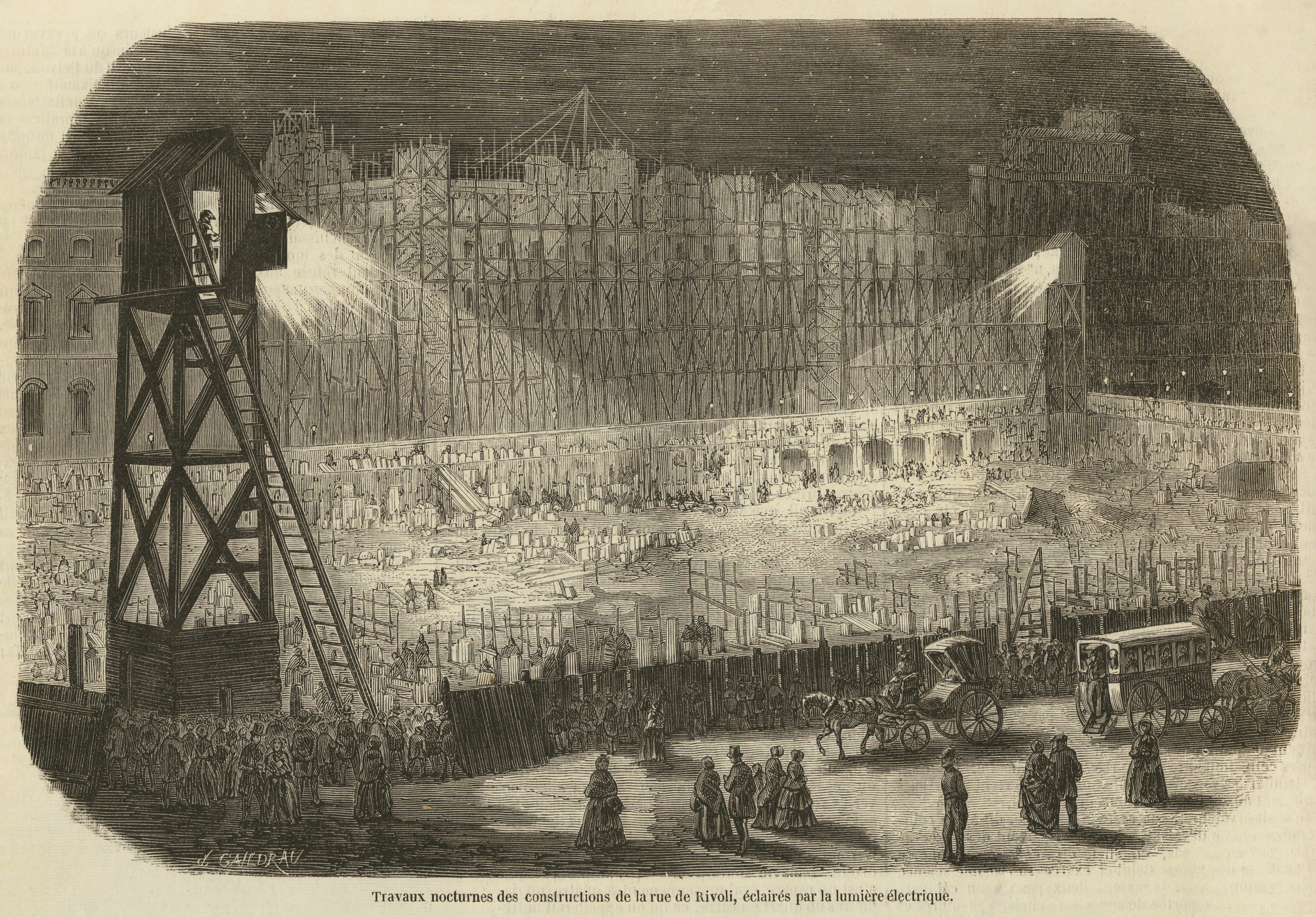 The rue de Rivoli was named after one of Napoleon's early victories. The street was an important project in Haussmann's city planning enterprise, and he started working on it in the first years of the Second Empire. He extended it dramatically, and transformed it into one of the most important axis of the new Paris.